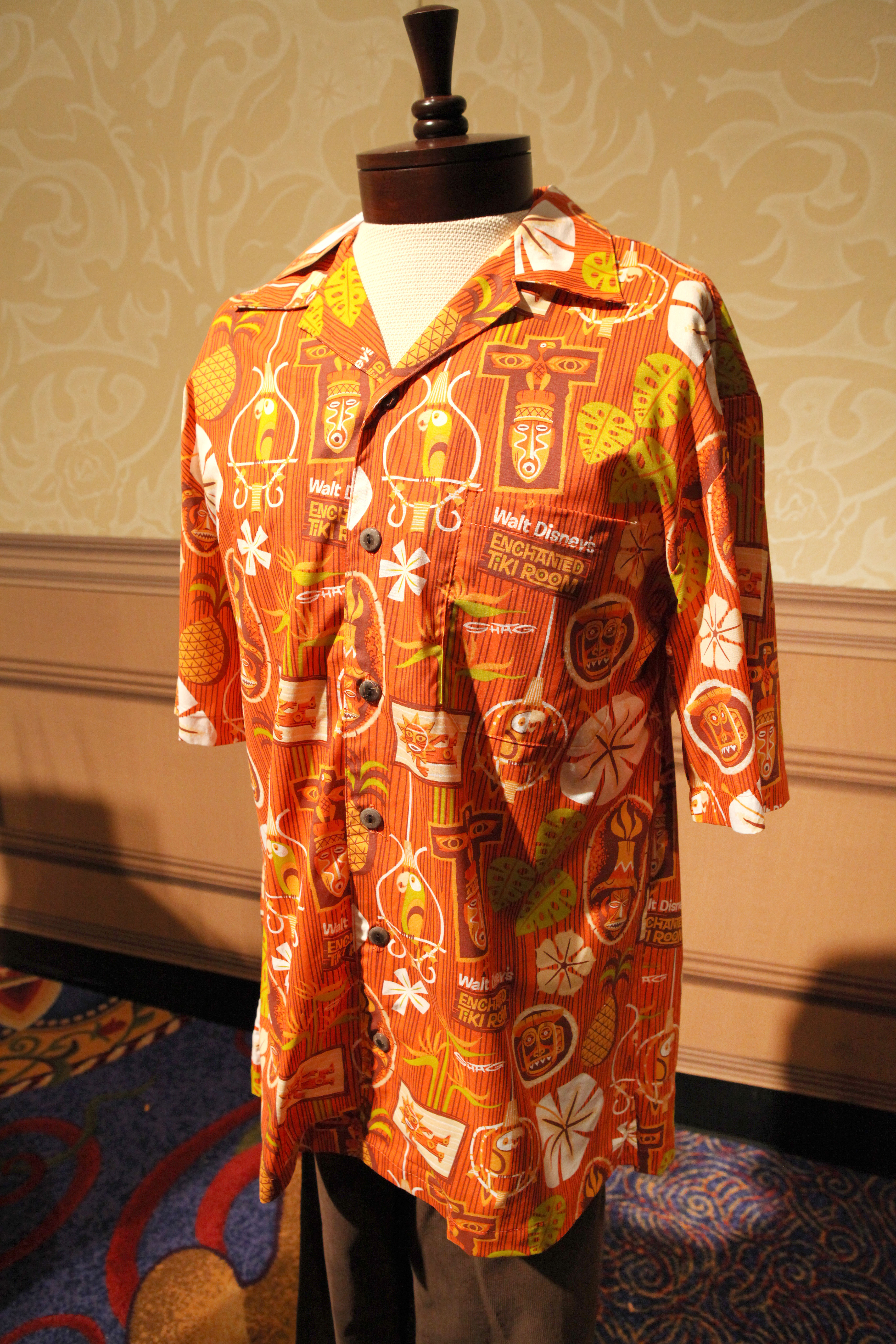 Walt Disney Aloha shirt